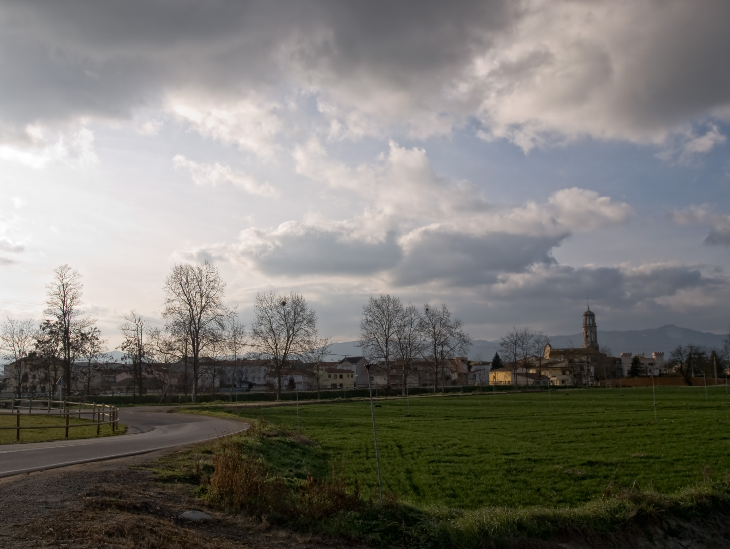 Vilobí d'Onyar, general landscape (Catalonia, Spain)